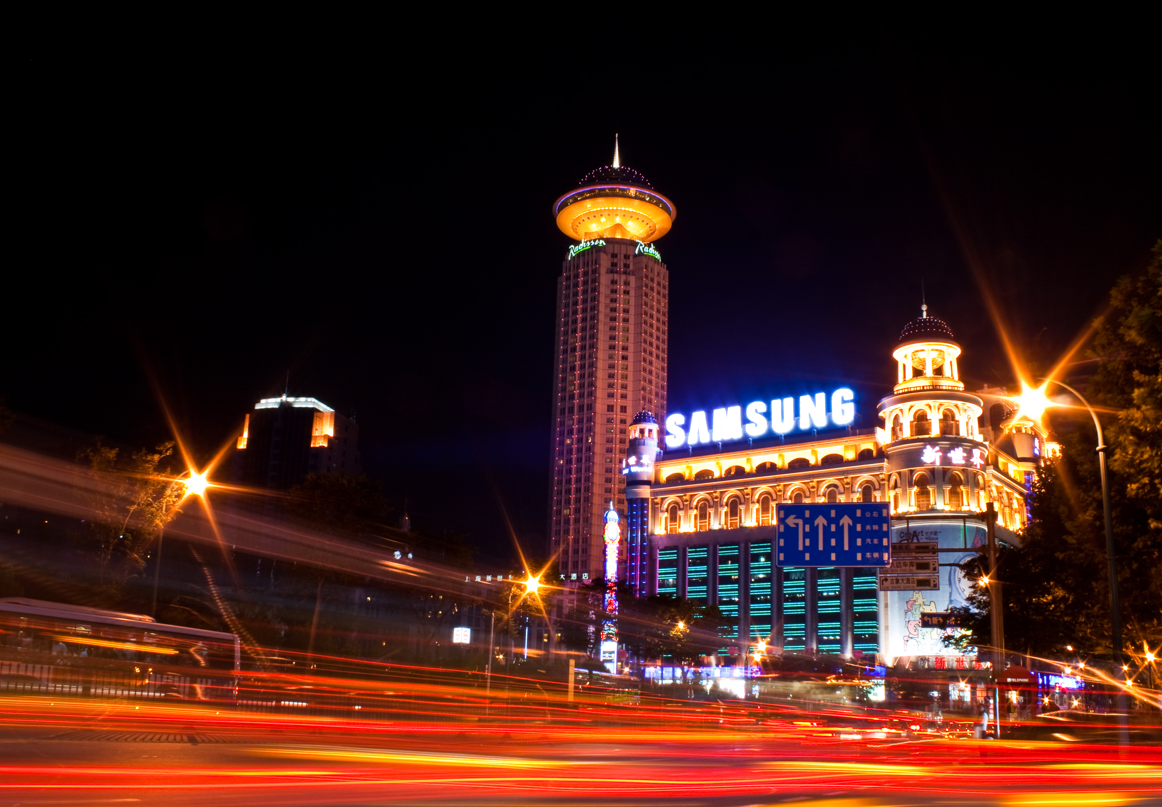 Taken near People’s Square. The Radisson Hotel Shanghai, with its flying-saucer domed top, is one of the more distinctive buildings in the Shanghai skyline.